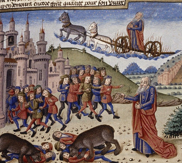 Elisha standing by as God sends bears to attack the youths that threatened him (2 Kings 2:23-25). Elijah in the sky. From "French 1463 Ms Douce 336 Bodl. lib"